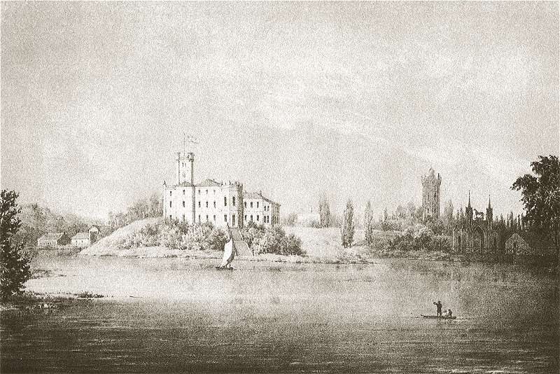 Lentvaris Palace, Lithuania